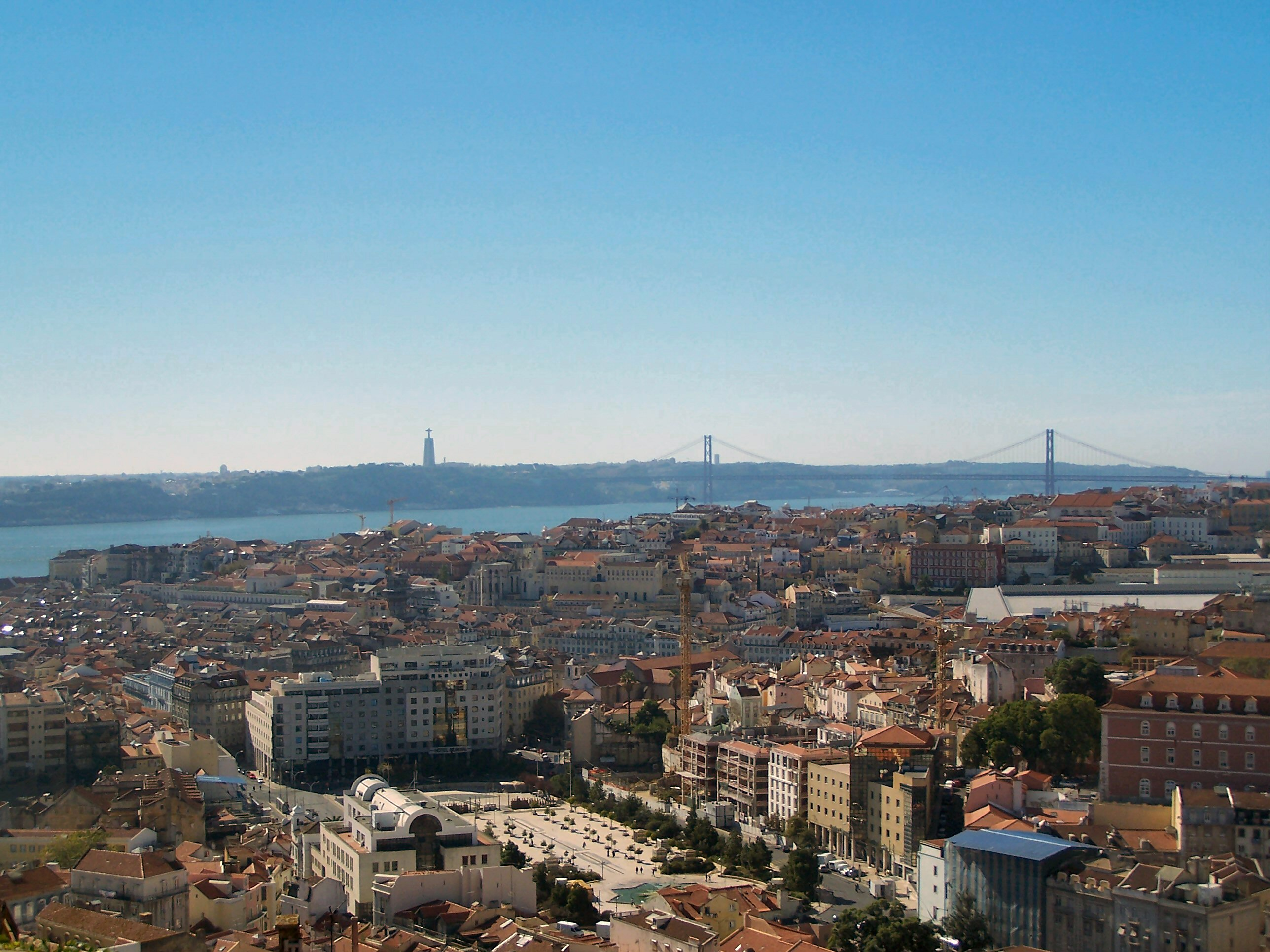 Panoramic view - Lisboa